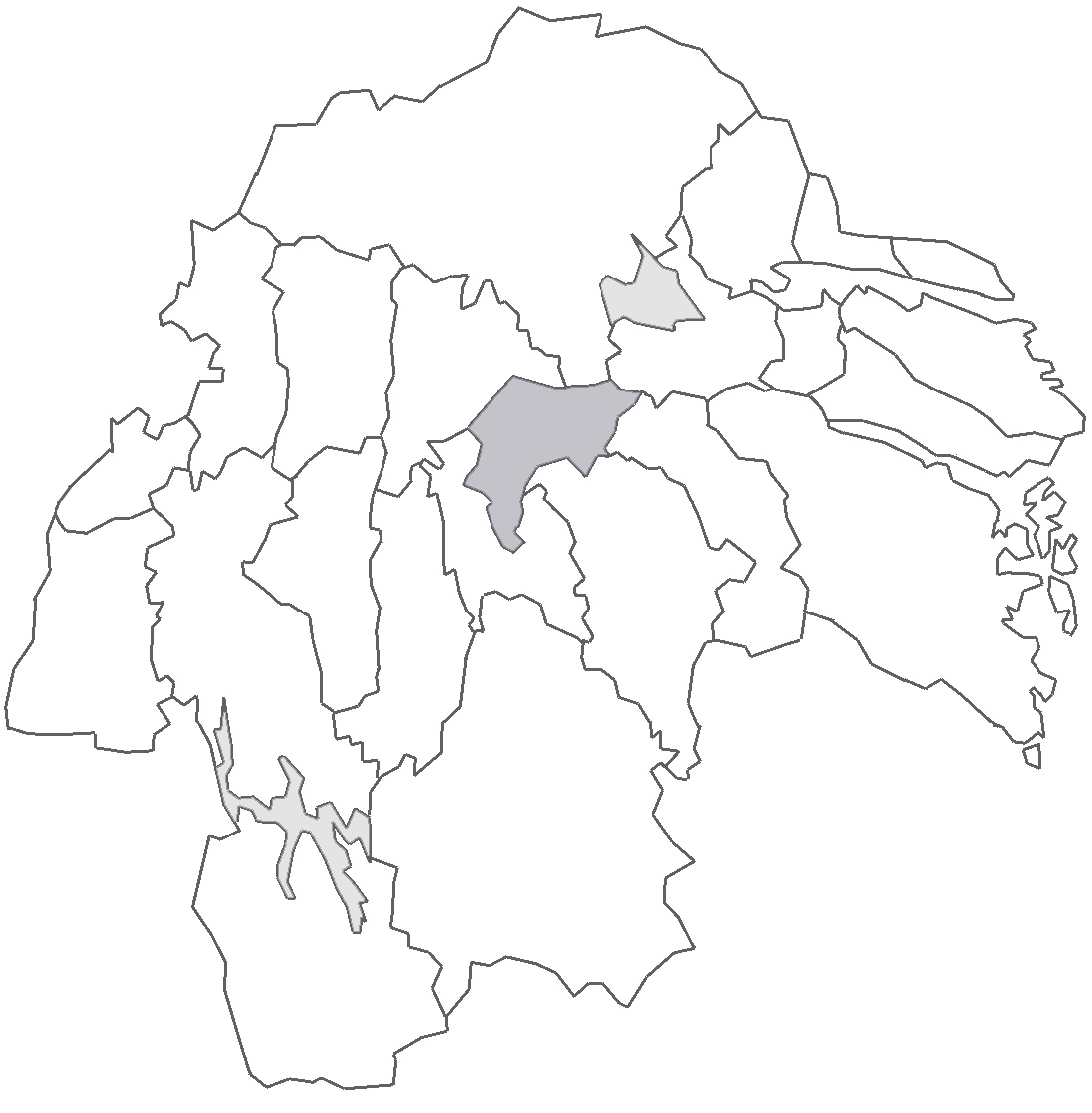 Map describing the location of Åkerbo Hundred in Östergötland County, Sweden.